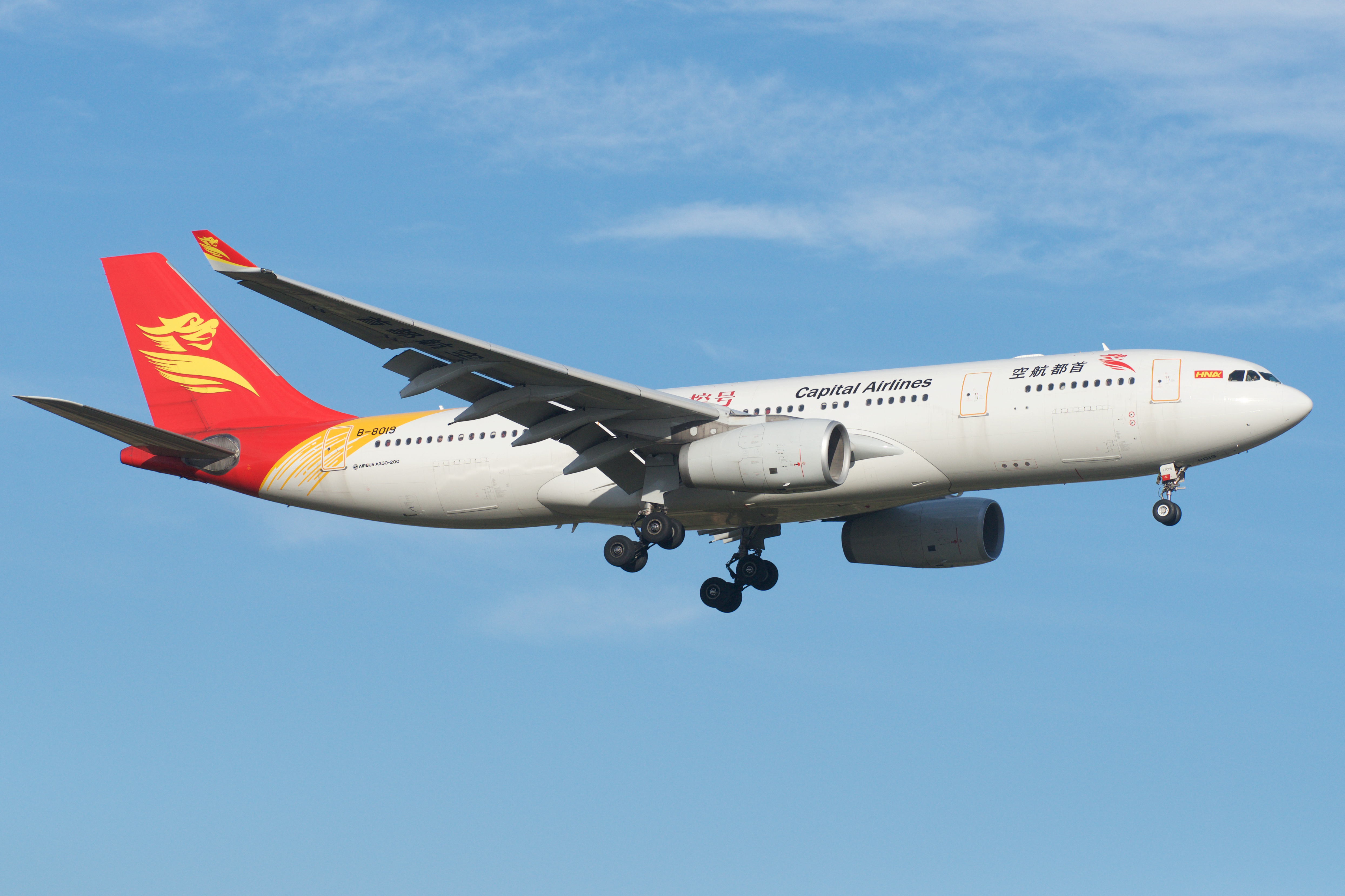 Arriving MEL